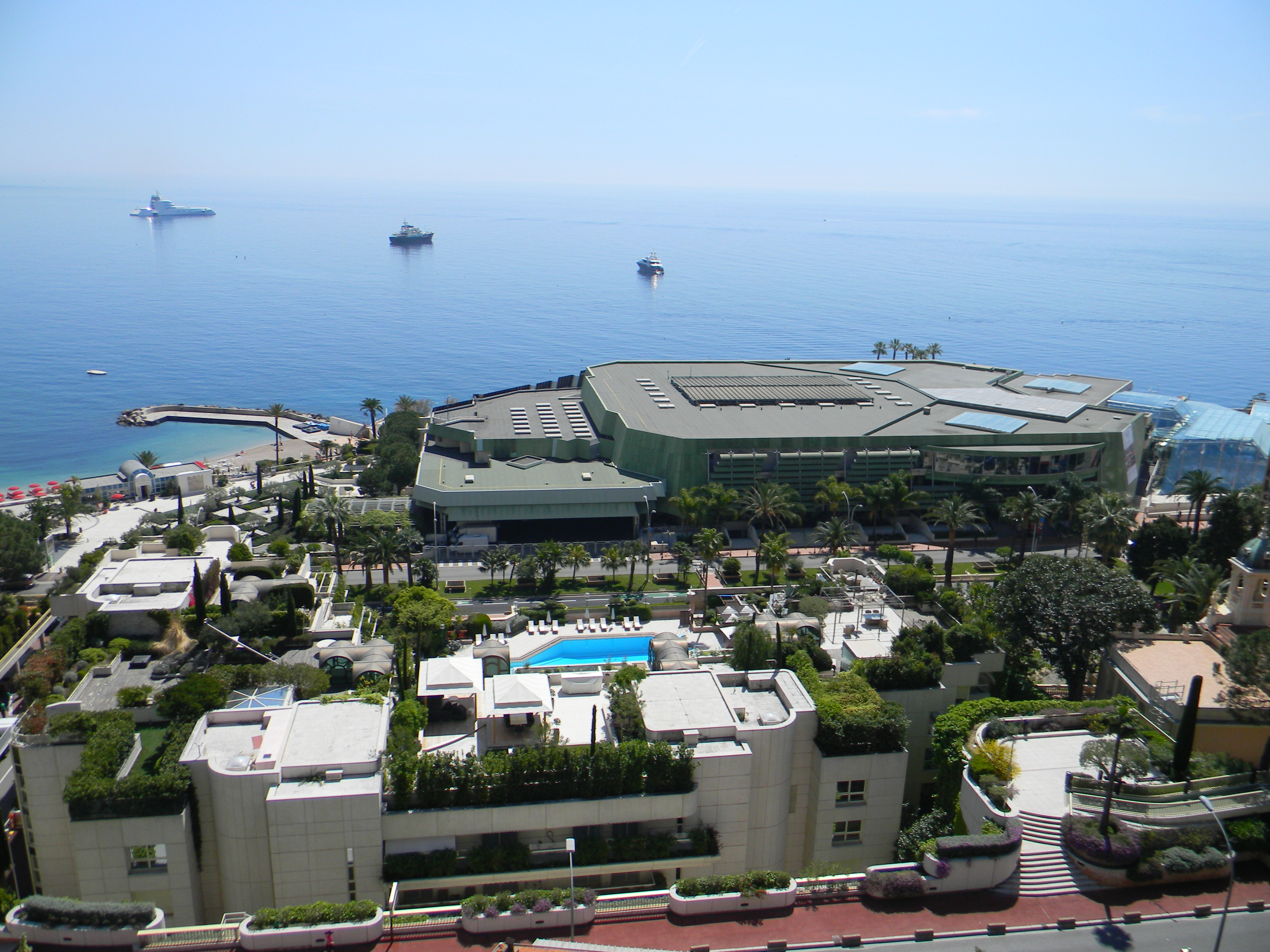 Monaco, Monte Carlo Harbour